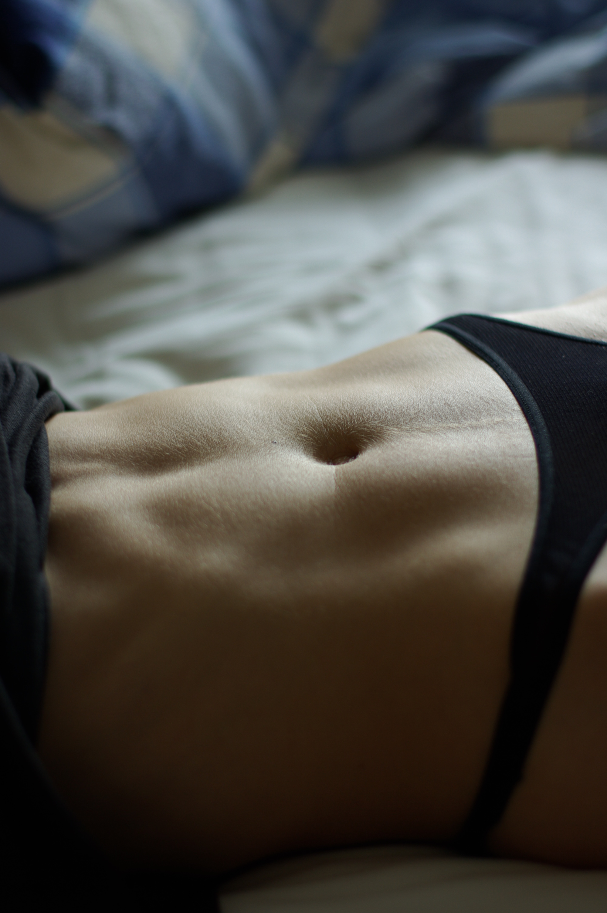 Abdominal muscles on a woman's belly.